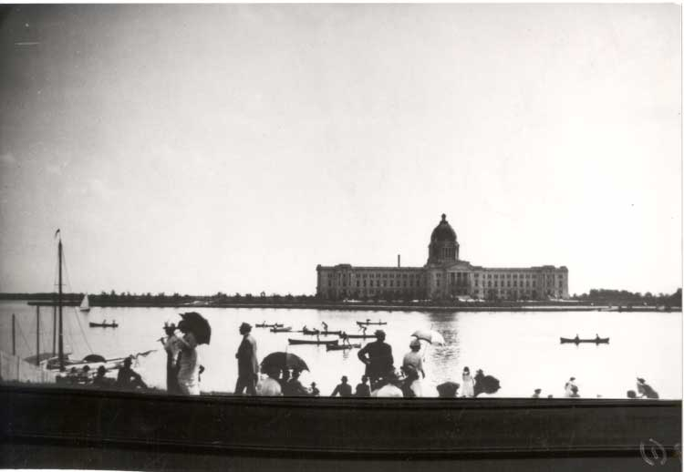 Day out at Wascana Park c. 1910. The first Regina Boat Club was built in 1909. It blew down in the devastating cyclone of 1912 and was rebuilt that same year. The second Regina Boat Club was demolished in 1964.